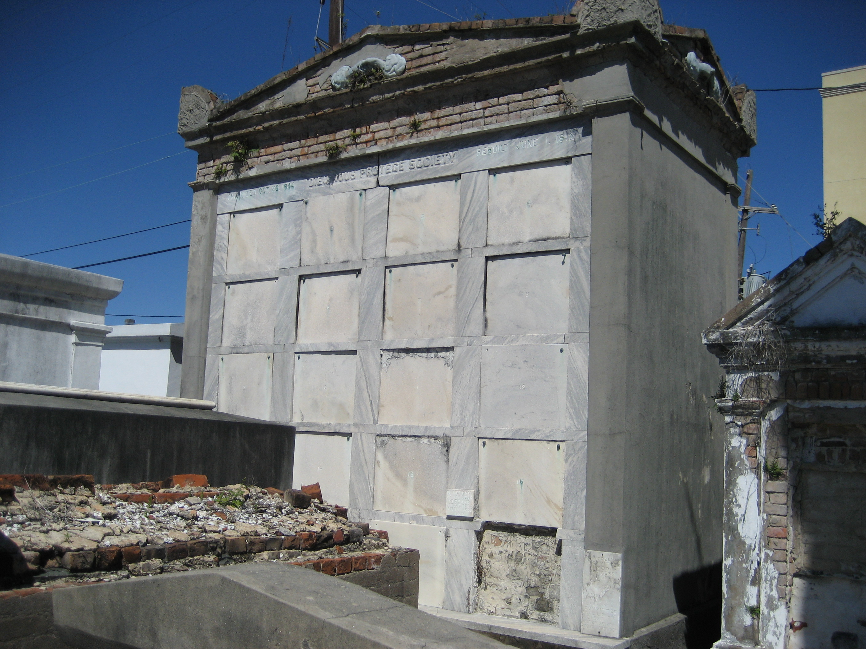 St. Louis Cemetery #1, New Orleans. Social organization tomb.